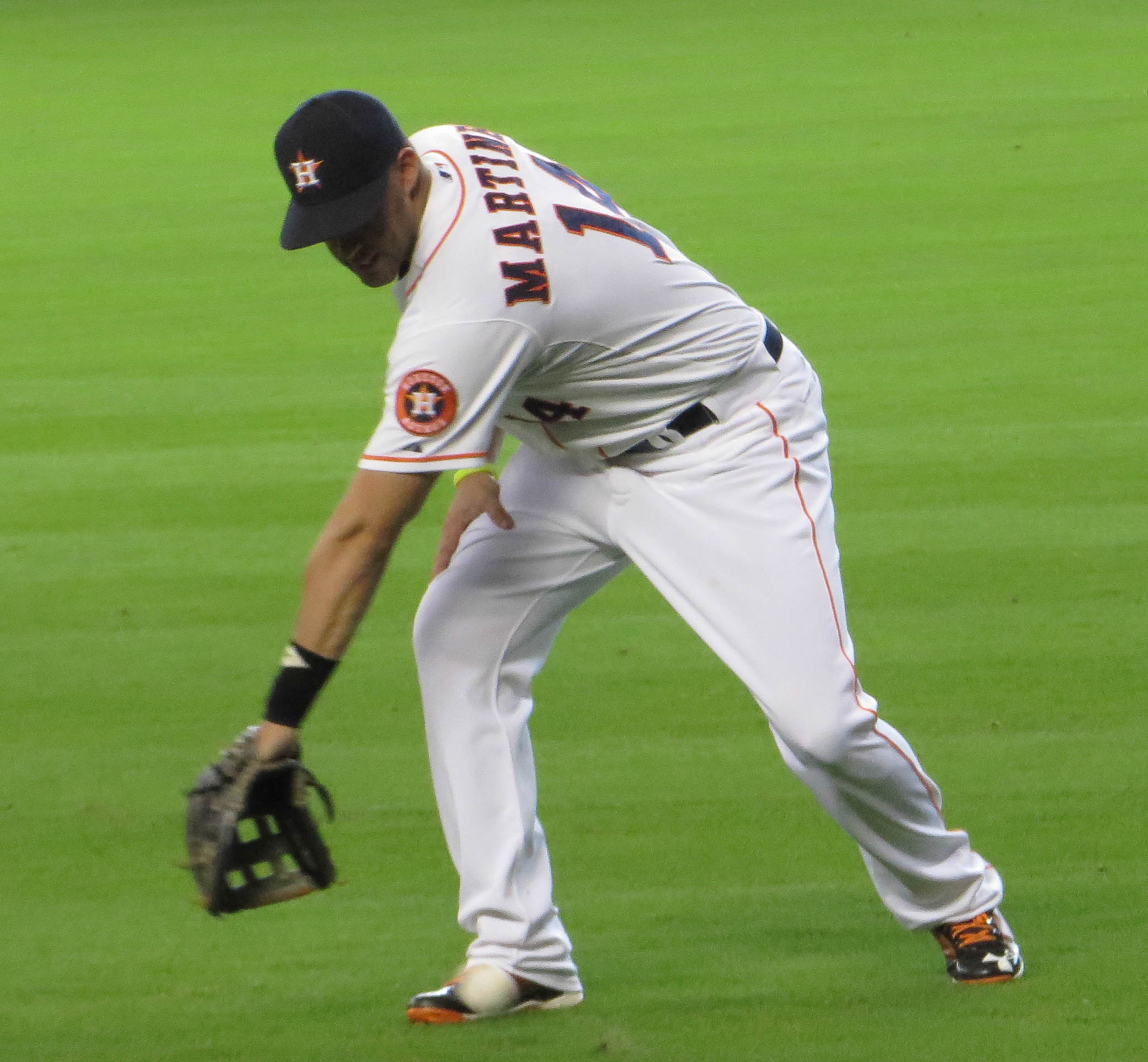 Houston Astros outfielder J. D. Martinez reaches for a ball while warming up during a September 29, 2013 game against the New York Yankees.